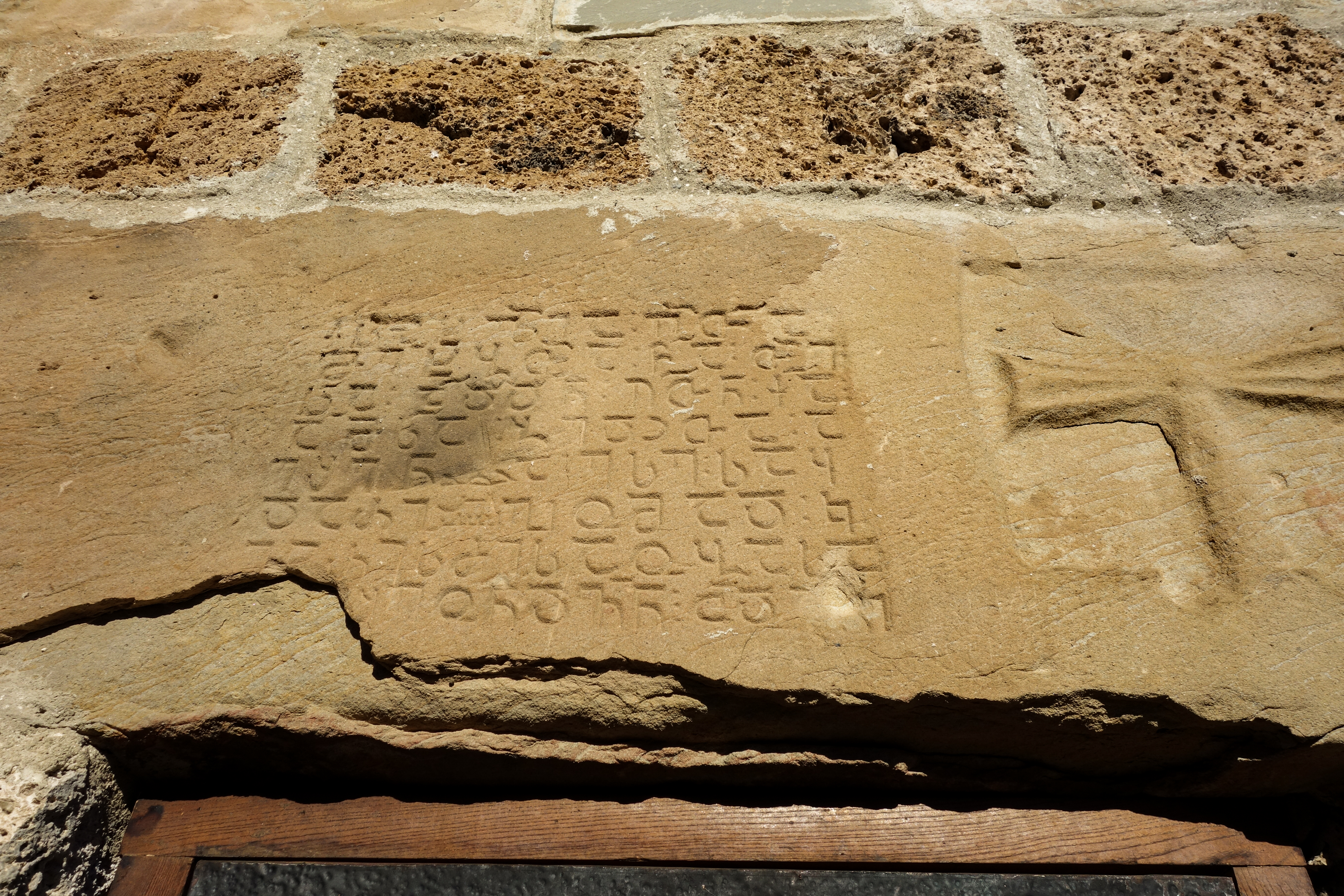 An inscription over the entrance of Machkhani Church (IX c.), Mtskheta-Mtianeti, Georgia